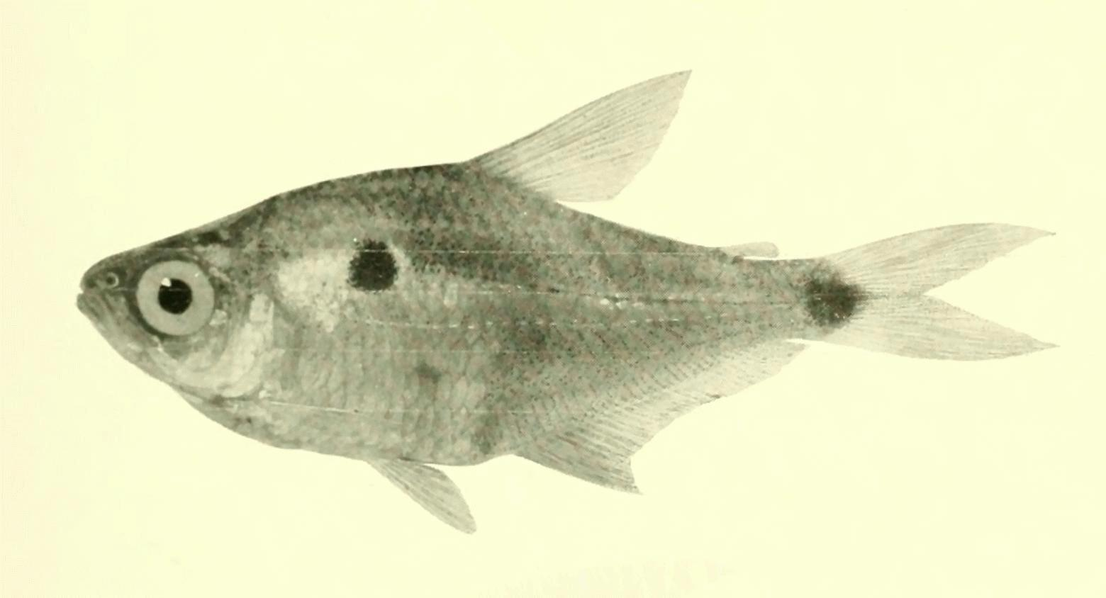 Annals of the Carnegie Museum - Phenacogaster franciscoensis Cut-out from original (Annals of the Carnegie Museum (1911-1913) (18226917269).jpg) shown below